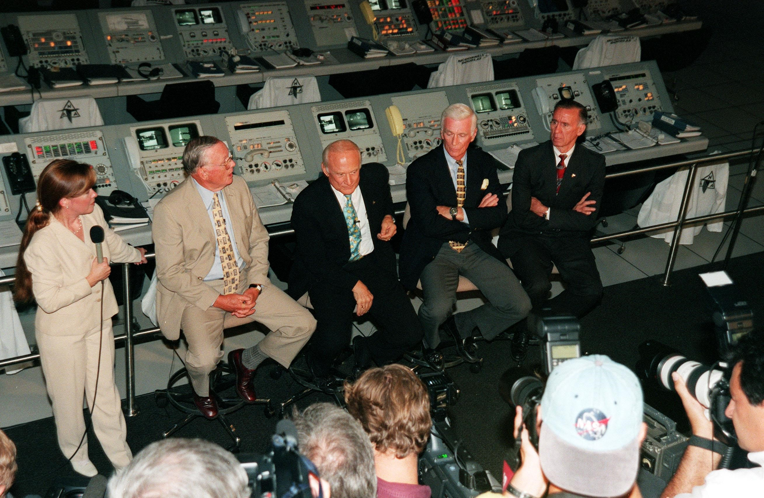 KENNEDY SPACE CENTER, FLA. -- In this closeup viewed from above, former Apollo astronauts (seated, left to right) Neil A. Armstrong and Edwin "Buzz" Aldrin who flew on Apollo 11, the launch to the moon; Gene Cernan, who flew on Apollo 10 and 17; and Walt Cunningham, who flew on Apollo 7, answer questions from the media during a press conference in the Apollo/Saturn V Center. At left is Lisa Malone, chief of KSC's Media Services branch, who monitored the session. In the background are the original computer consoles used in the firing room during the Apollo program. They are now part of the reenactment of the Apollo launches in the exhibit at the center. The four astronauts were at KSC for the 30th anniversary of the Apollo 11 launch and moon landing, July 16 and July 20, 1969